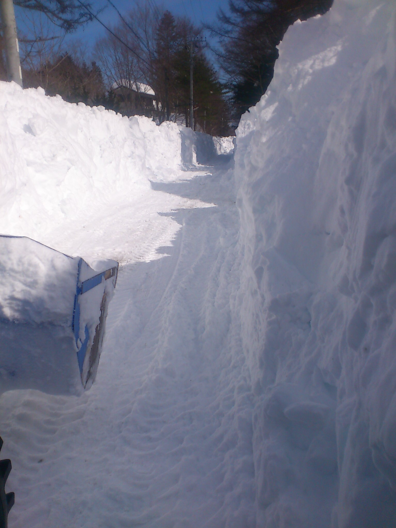 Road in Narusawa village